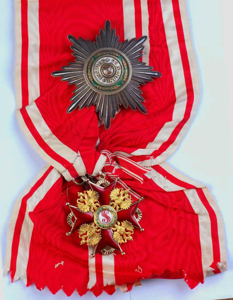 Order of Saint Stanislaus 1st